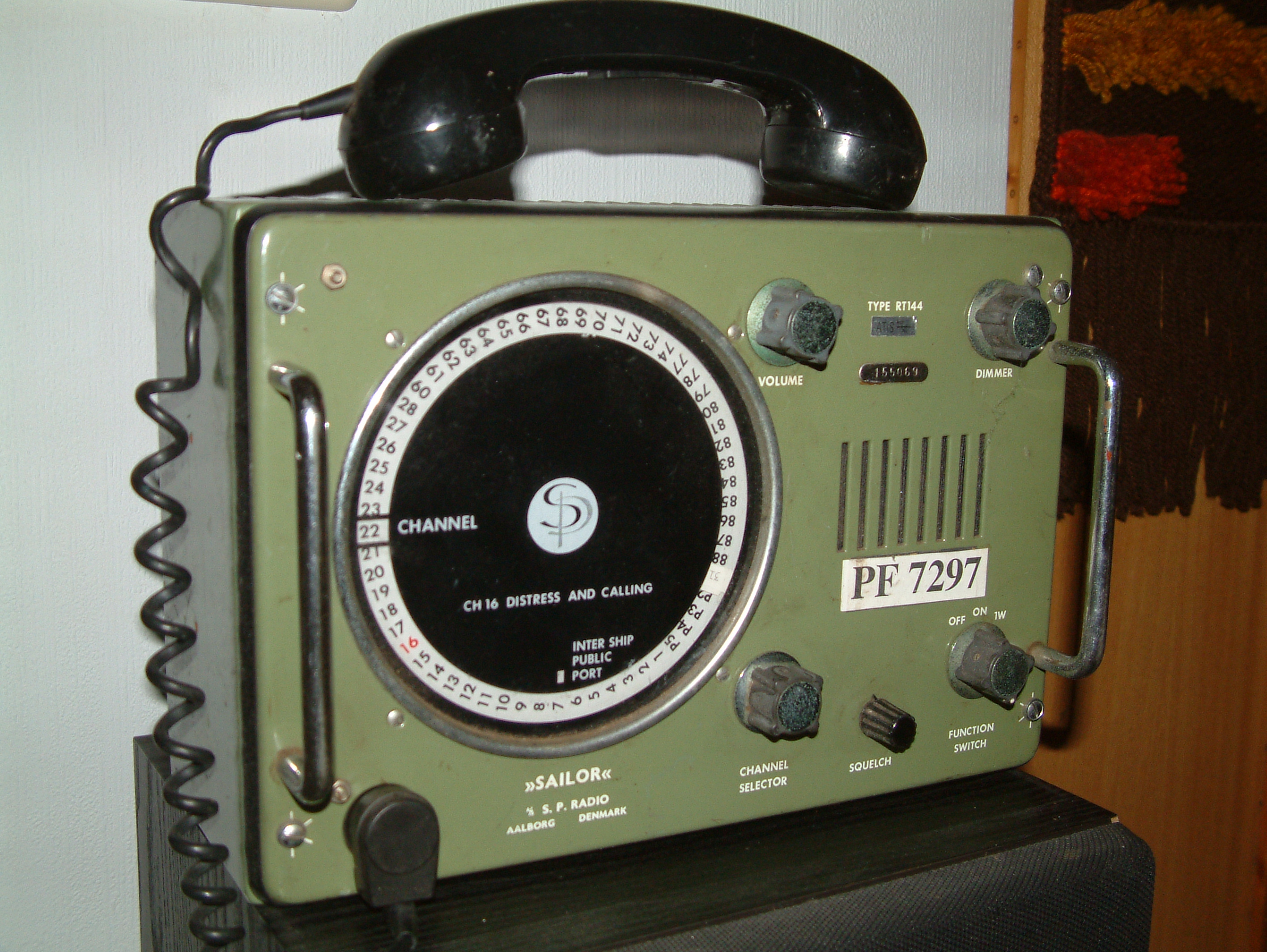 VHF Marifoon Sailor RT144